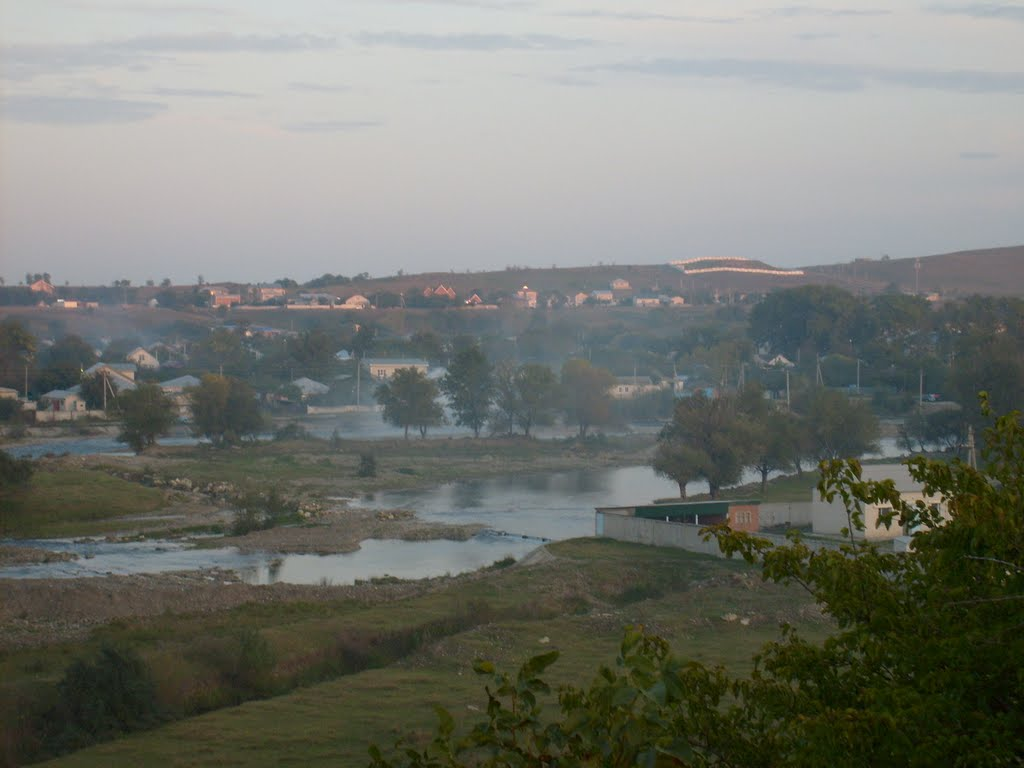 Village Adyghe-Khabl Адыгэбзэ: Адыгэ Хьэблэ